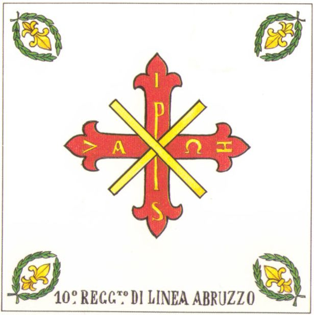 Flag of 10° Regiment "Abruzzo" (Kingdom of Two Sicily) 1860